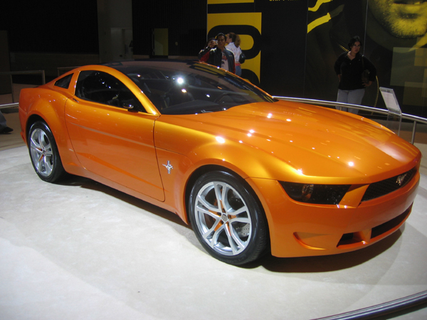 Giugiaro Ford Mustang. Taken at the 2006 Los Angeles International Auto Show.